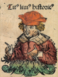 This is a part of a scan of an historical document: Title: Schedelsche Weltchronik or Nuremberg Chronicle